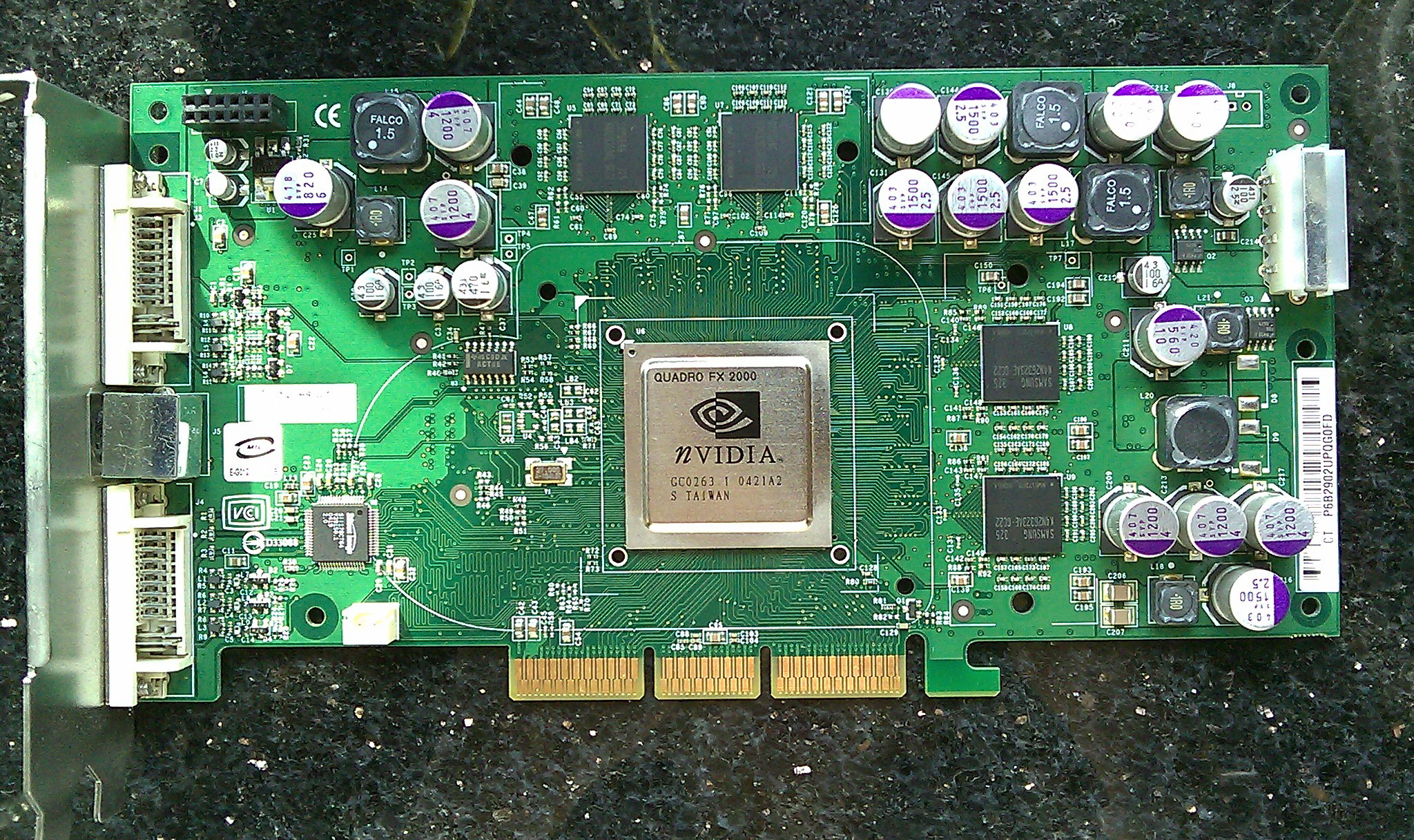 NVIDIA Quadro FX 2000 Graphic card